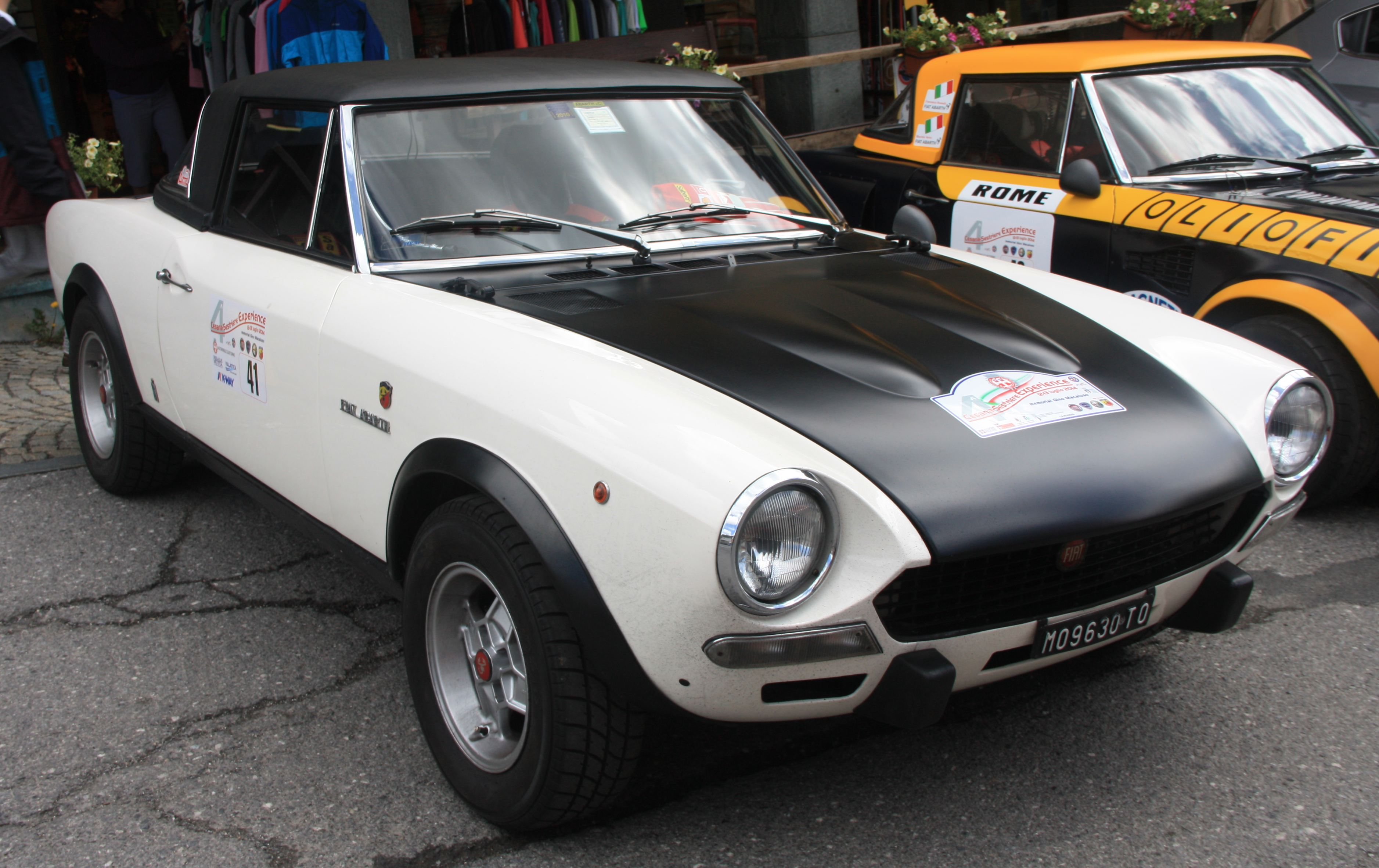 1975 Fiat 124 Abarth Rally at the 4th Cesana-Sestriere Experience, 13 July 2014.